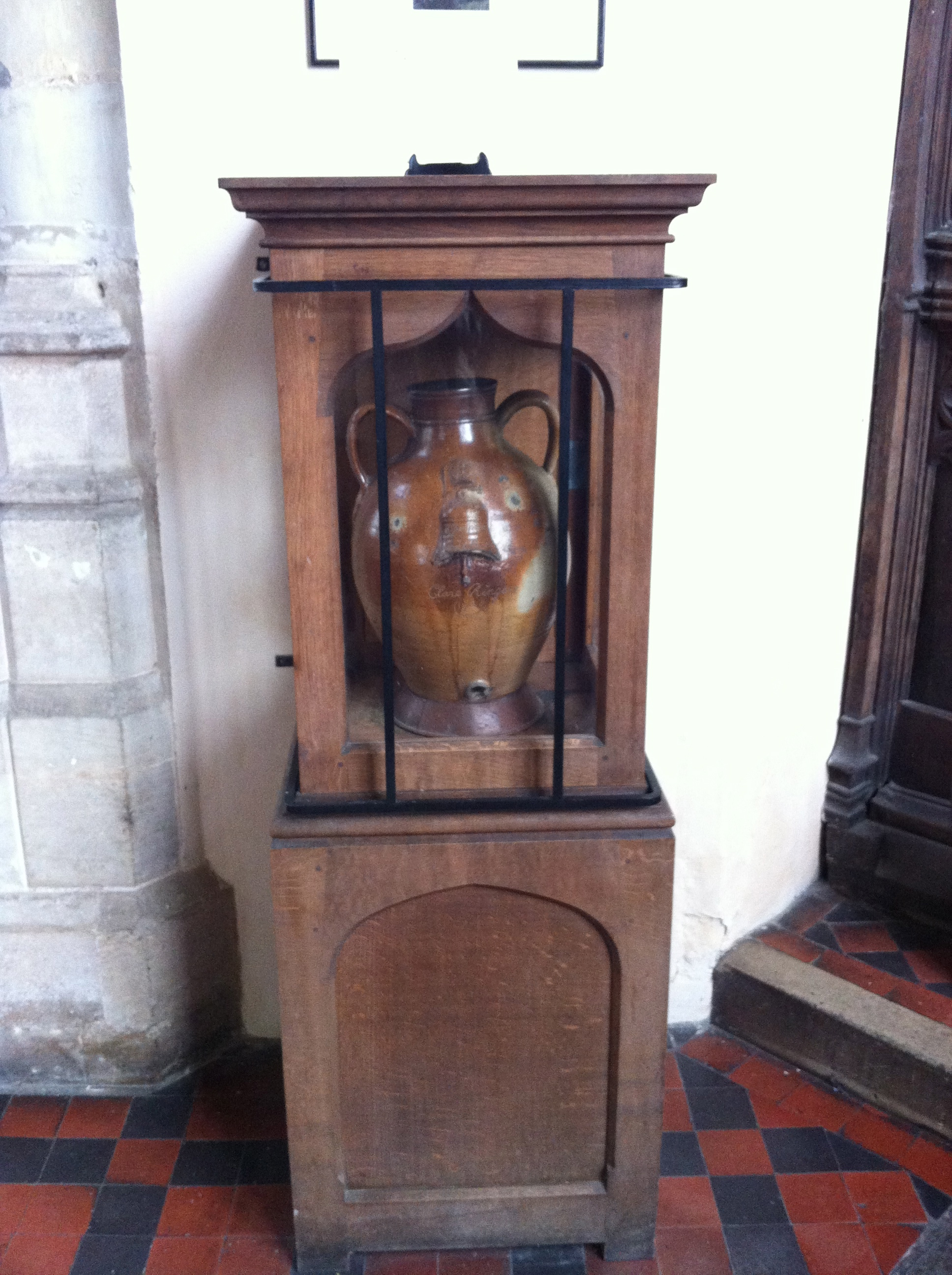 A beer jub presented to the bell ringers in 1729 by the Vicar. Holds 32 pints. St Peter and Paul's Church, Clare, Suffolk